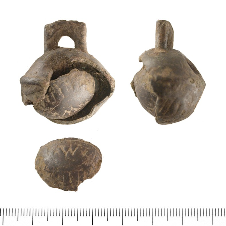 Complete cast alloy crotal bell of Post Medieval date (AD 1500 - AD 1800). Length 35mm, diameter 32mm. Weight 36.89mm. The weight includes soil and iron corrosion. The bell has a sub-rectangular suspension lug which is 10mm in length and 15mm in width and about 4mm thick. It has a perforation which is D-shaped in plan, the curved edge being uppermost. The spherical bell is divided horizontally into two equal halves by a prominent circumferential moulded rib. About mid-way between the suspension lug and the rib are two diametrically opposed circular sound holes, each of which is about 5mm in diameter. The lower decorated hemisphere has two sound holes that are similar in size and shape to the upper sound holes. These two holes are joined by an integral sound slit. The decoration is in the form of the characteristic "sunburst" design. Adjacent to the sound slit at either side is a maker's mark enclosed in a semi-circular area. One side has a letter W with a crudely etched star on either side. The other part of the maker's mark is indeterminate due to wear and corrosion. The bell is worn and also corroded. However a mid-brown patina survives in places.